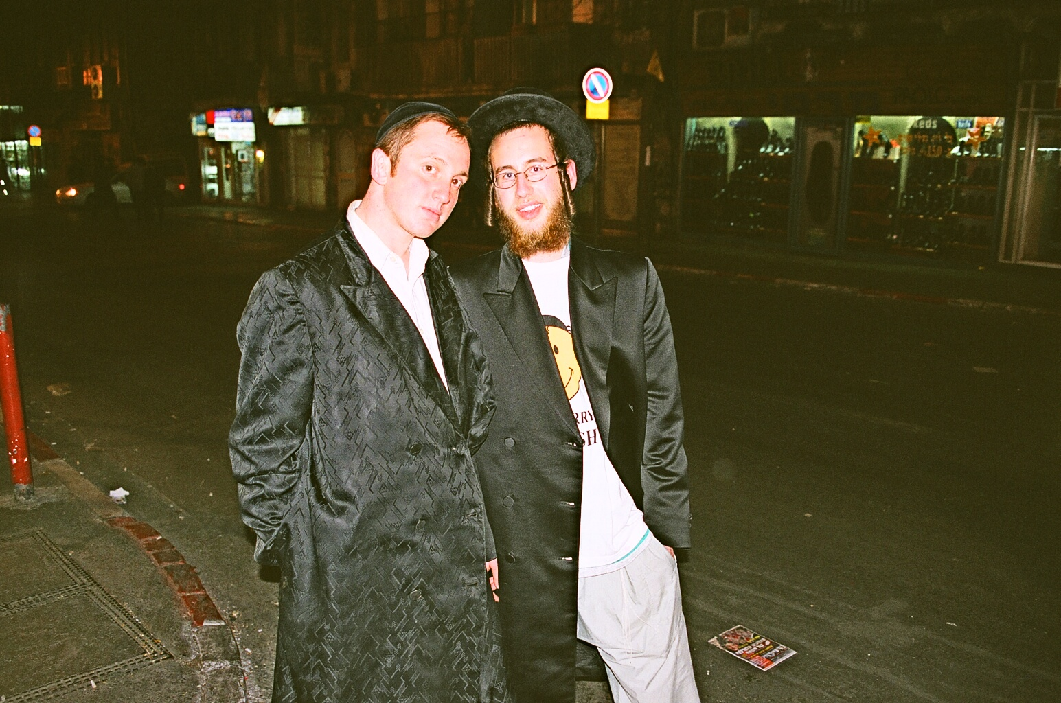 Israel, 1st day, photo number 027 - Young male religious Jews